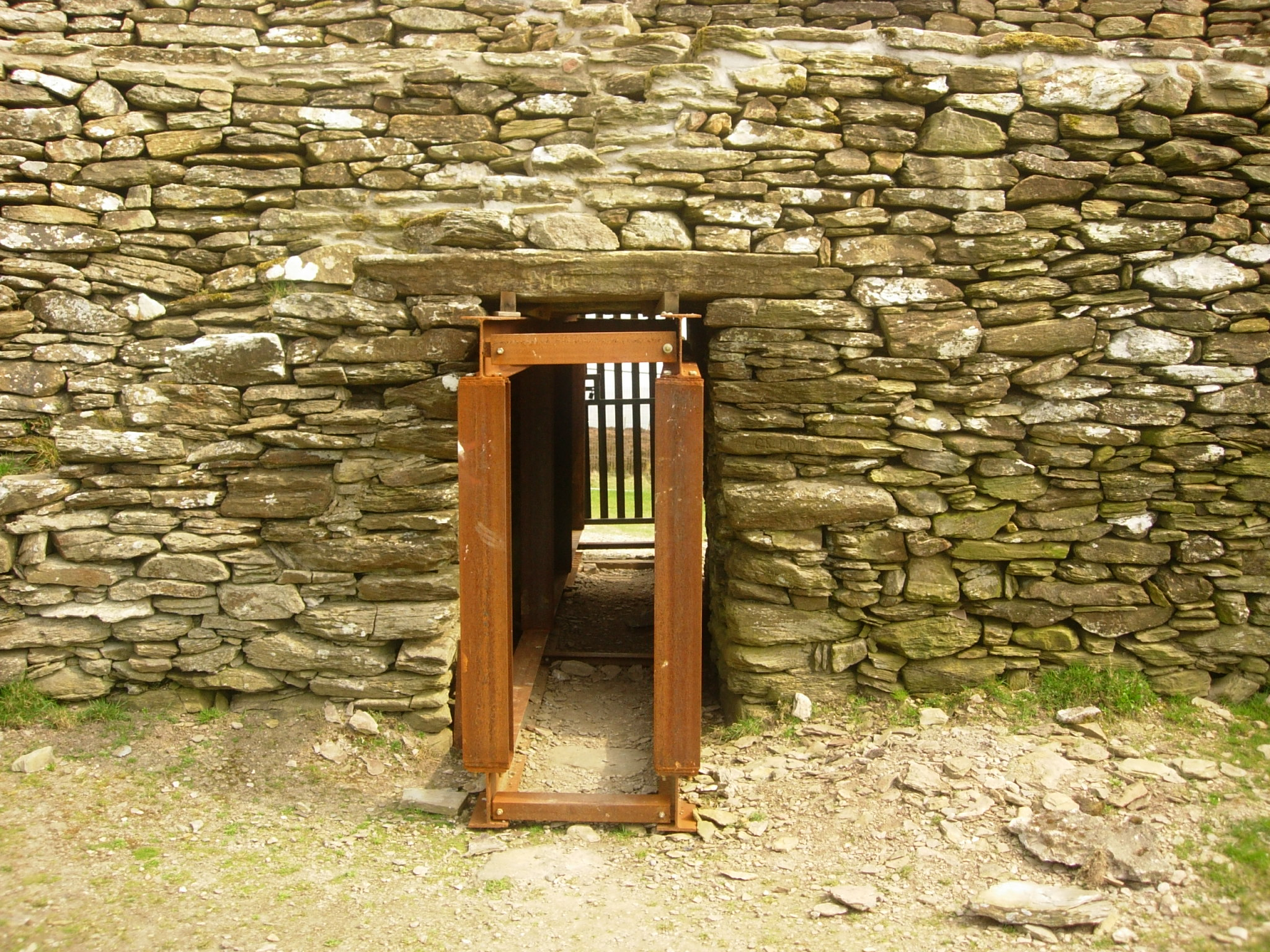 Entrance to the Grianan of Ailech, County Donegal, Ireland